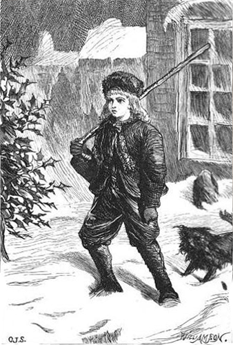 From Drifting and Steering 1870 by Lynde Palmer (Mary Louise Peebles)